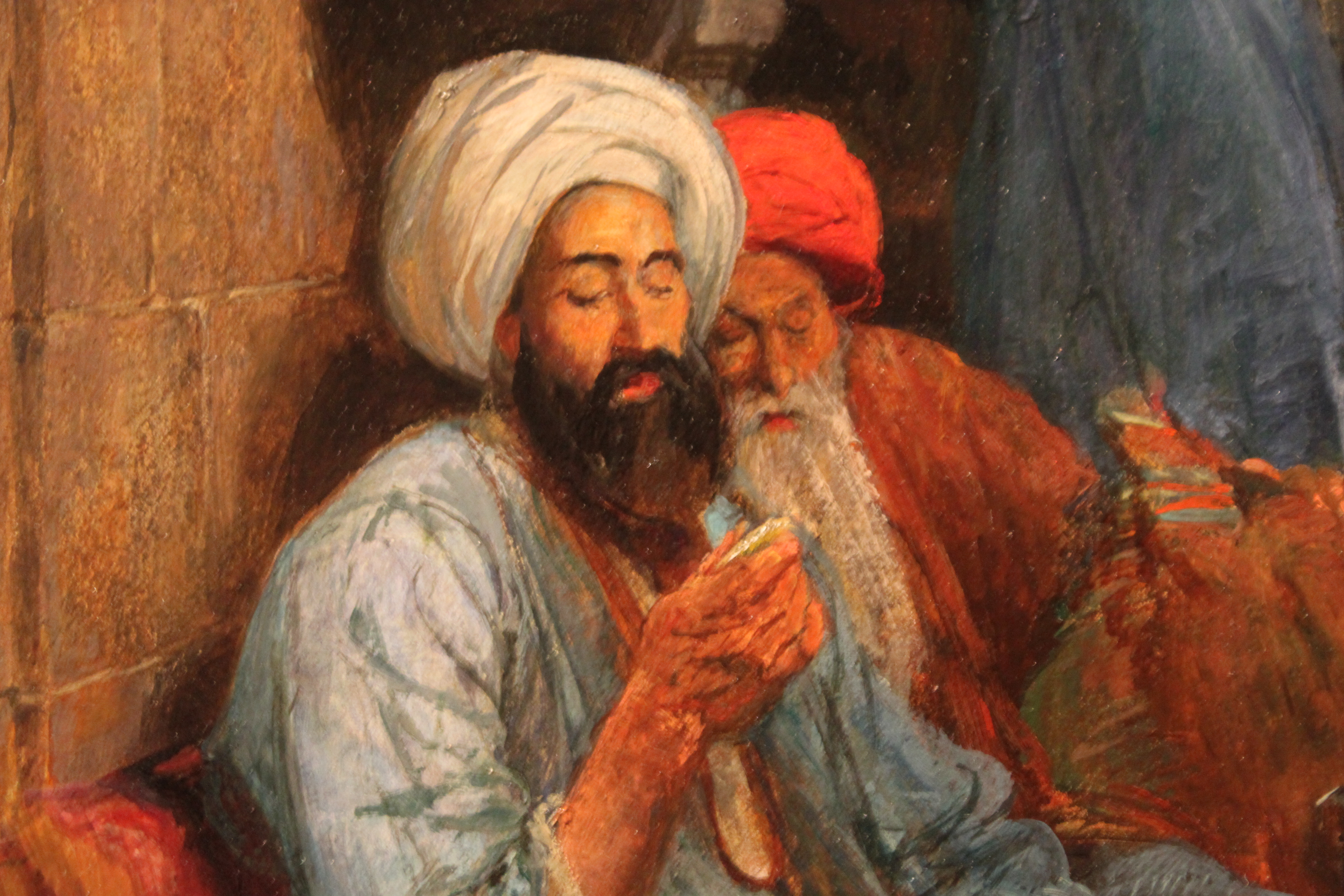 The street and mosque al Ghouri in Cairodetail